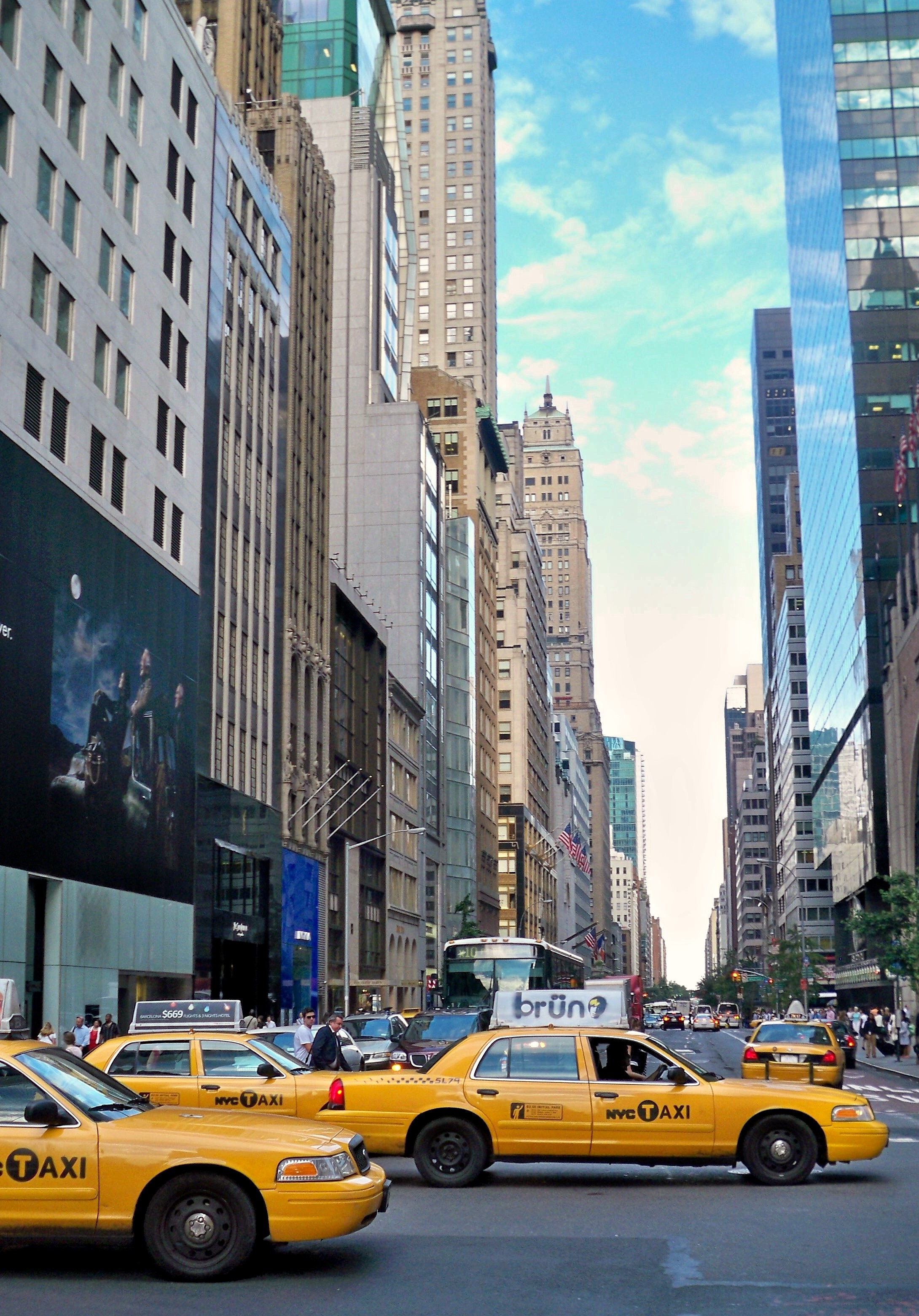 Midtown Manhattan during rush hour on Fifth Avenue.